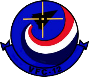 Insignia of the U.S. Navy Fighter Squadron Composite 12 (VFC-12) Fighting Omars.